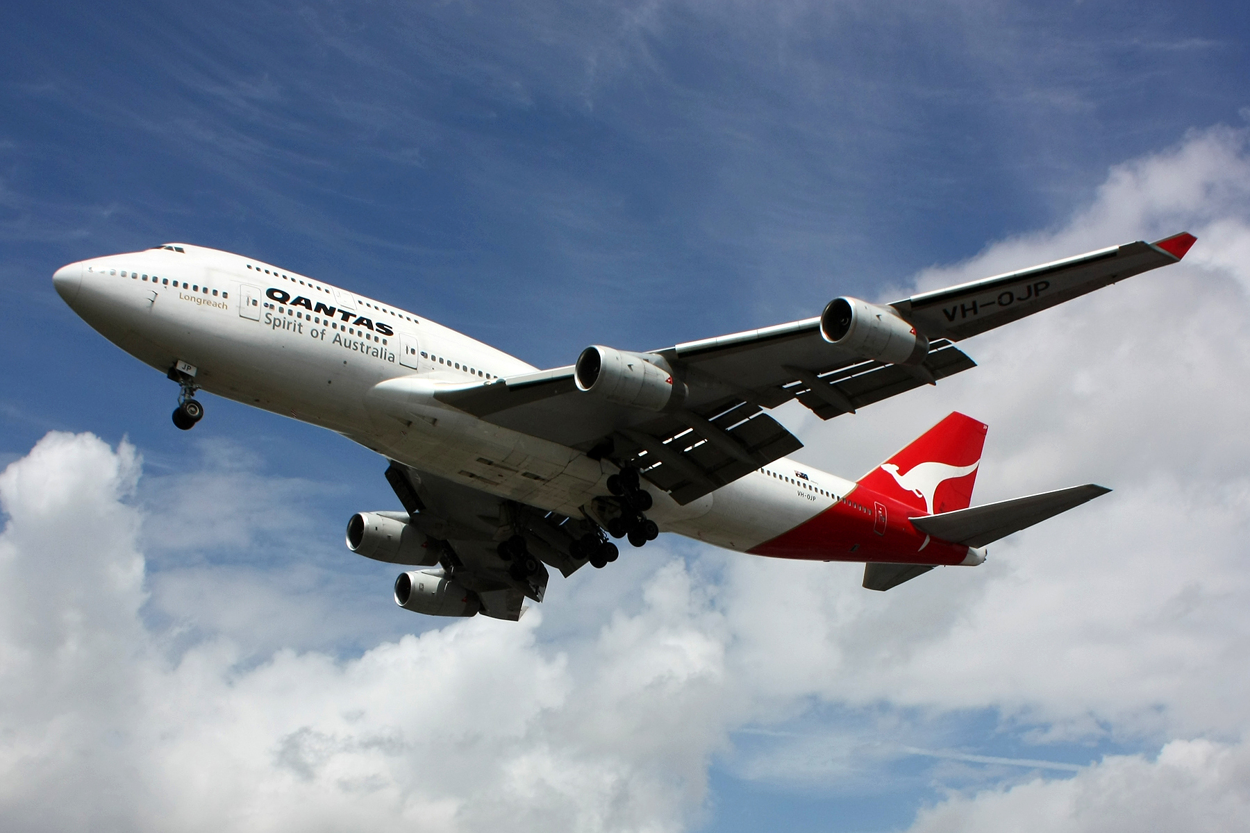 A Qantas Boeing 747-400 is arriving at London Heathrow (EGLL/LHR).